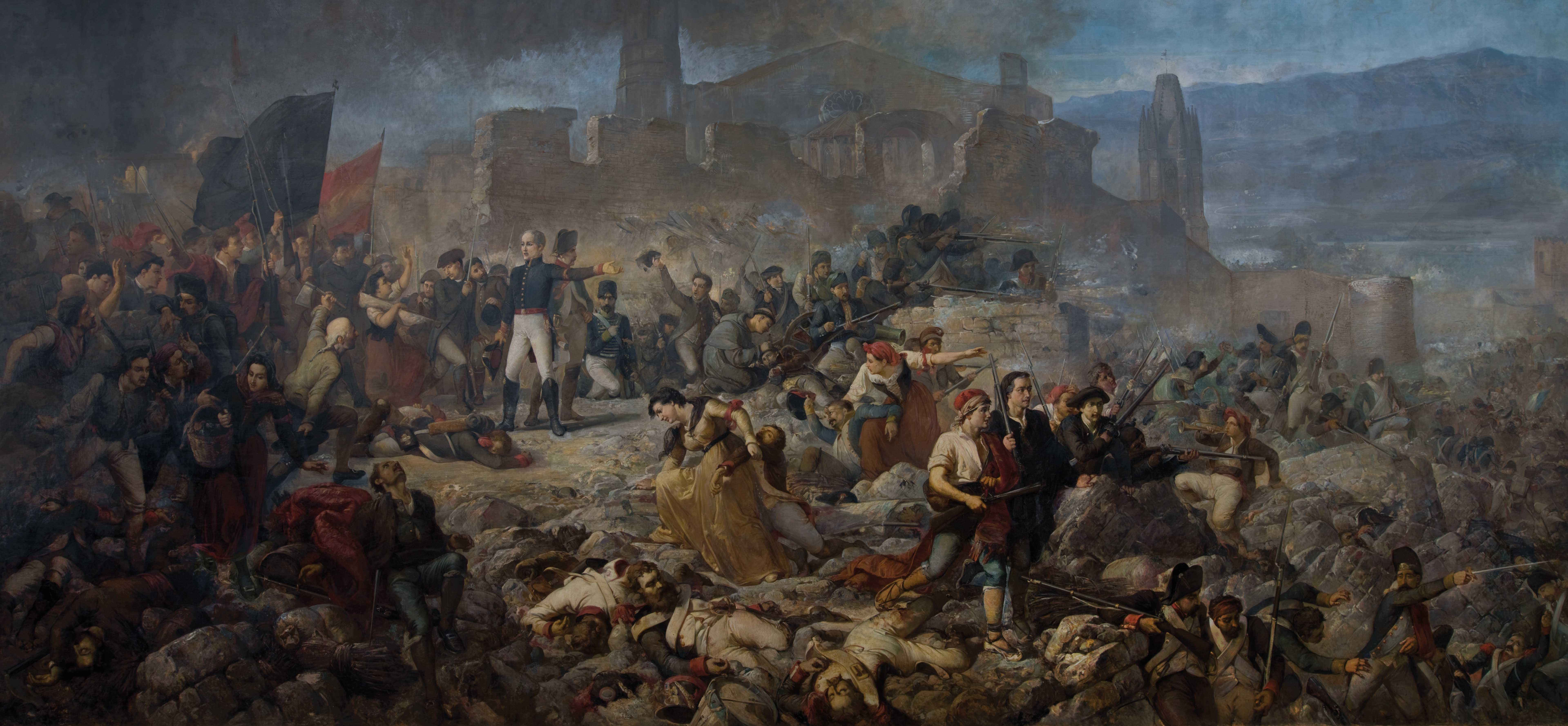 a historicizing painting on the siege of Girona by French troops (1809)